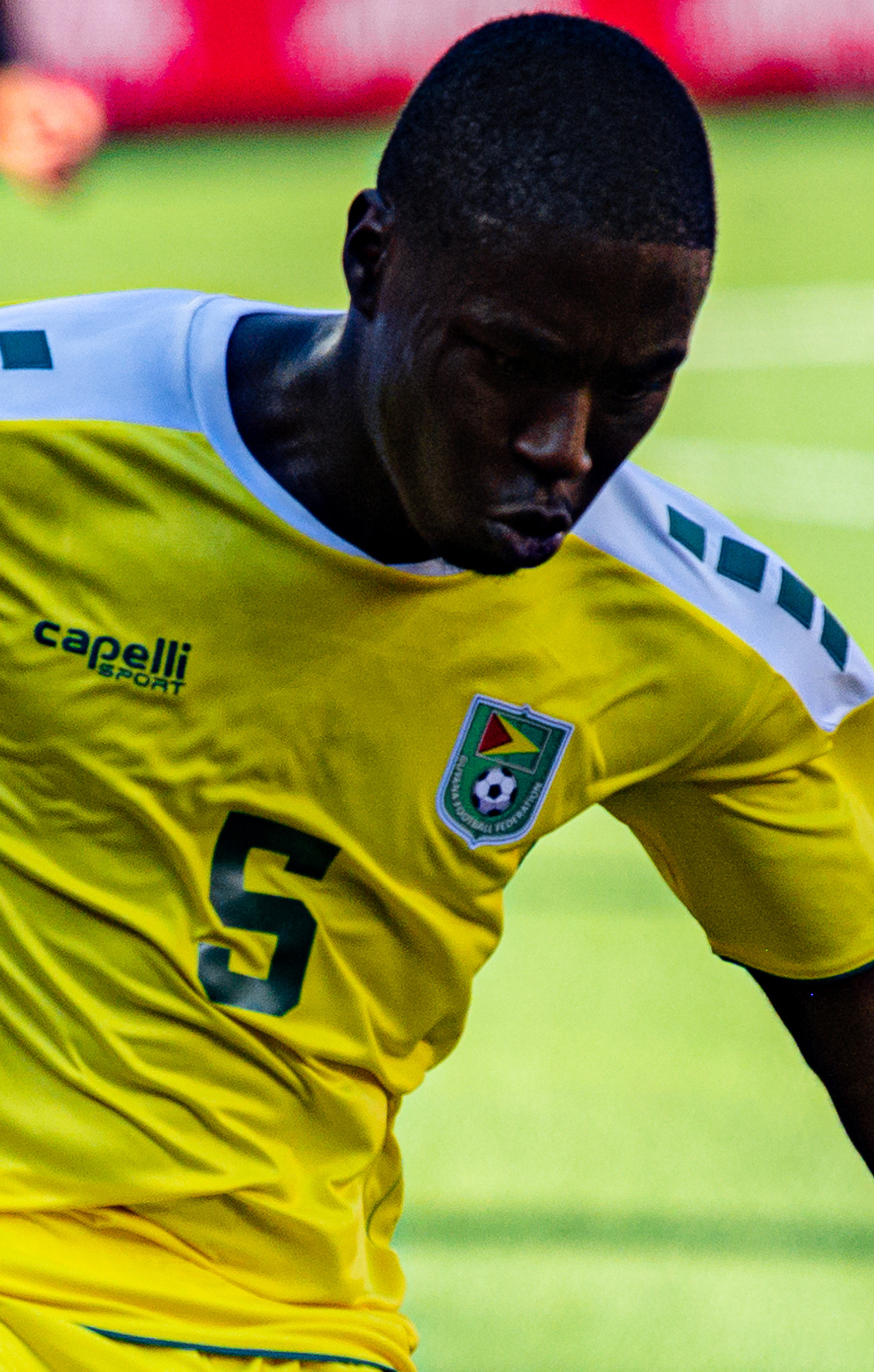 Concacaf Gold Cup